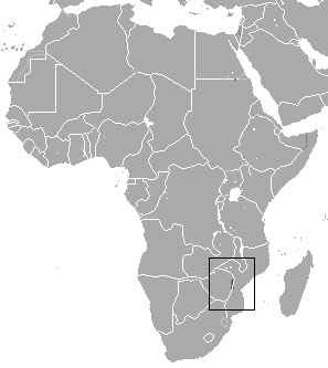 Arend's Golden Mole (Carpitalpa arendsi) range